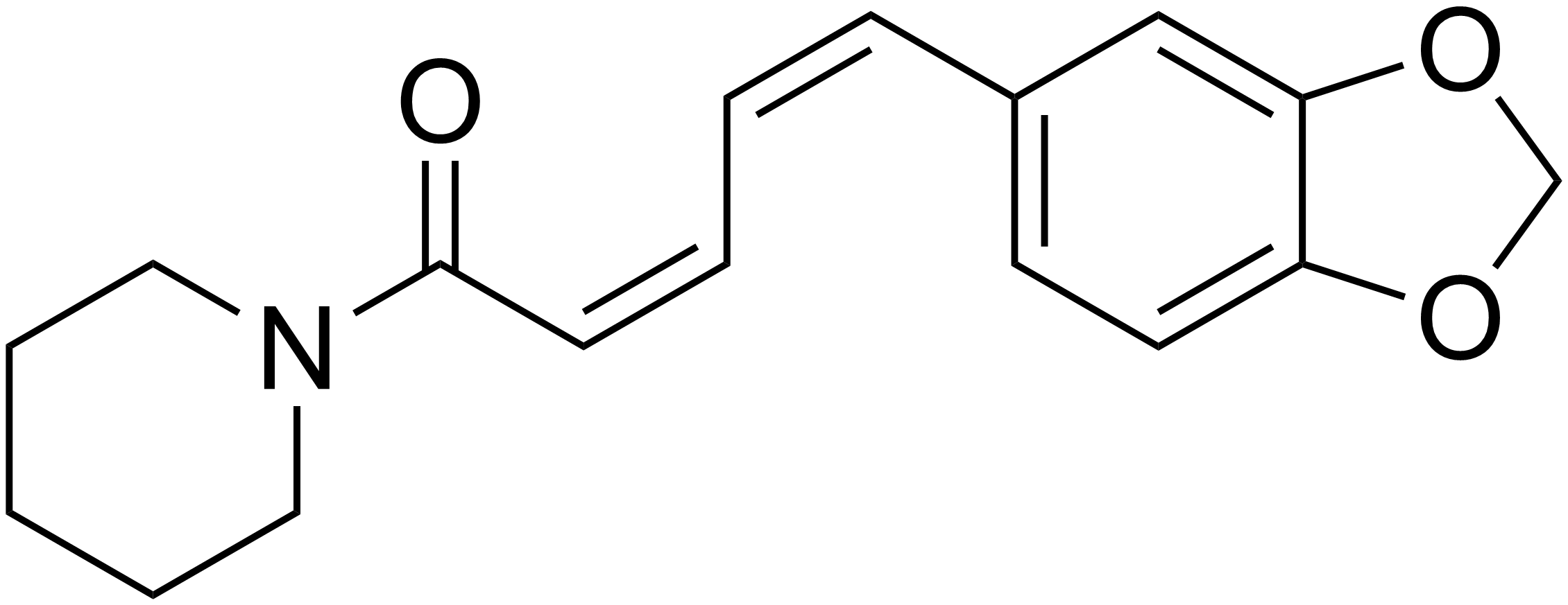 Chemical structure of chavicine created with ChemDraw.